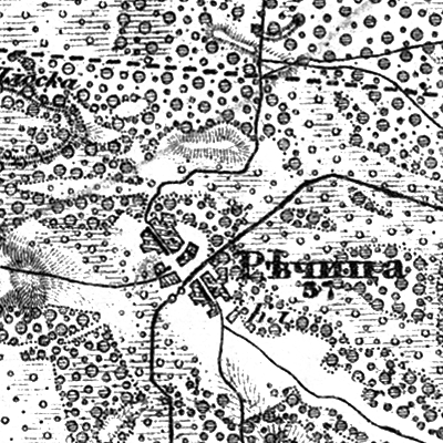 Richytsia (Verbivka) on the map "Военно-топографическая карта Российской Империи" (known as "Schubert's map"), XX 5, 1866-1887 (issued in 1911).